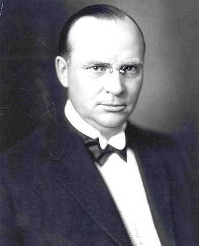 R. B. Bennett (1870–1947), Prime Minister of Canada